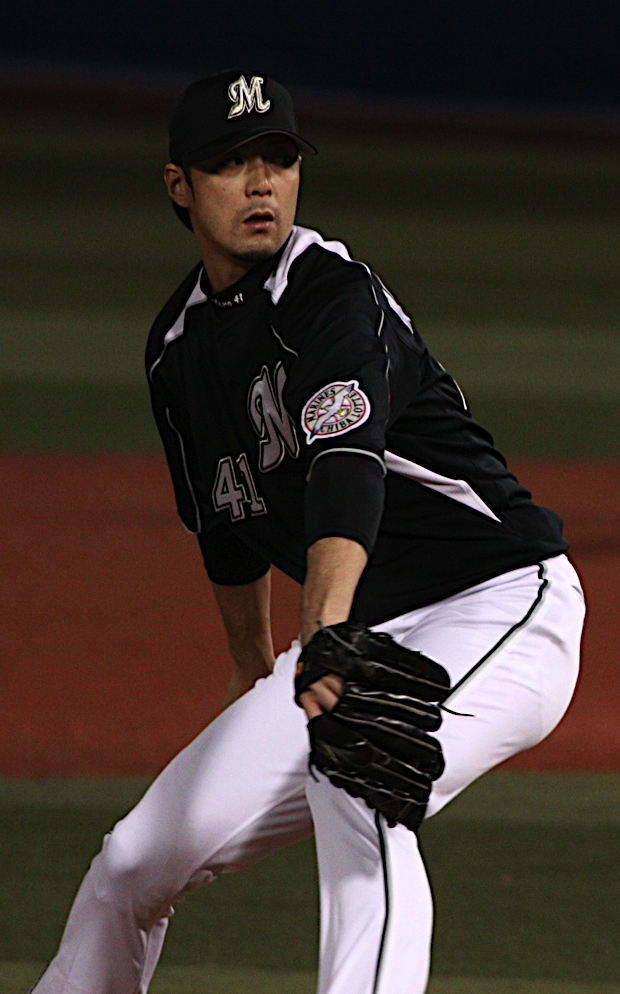 Hiroyuki Kobayashi, pitcher of the Chiba Lotte Marines, at Yokohama Stadium.